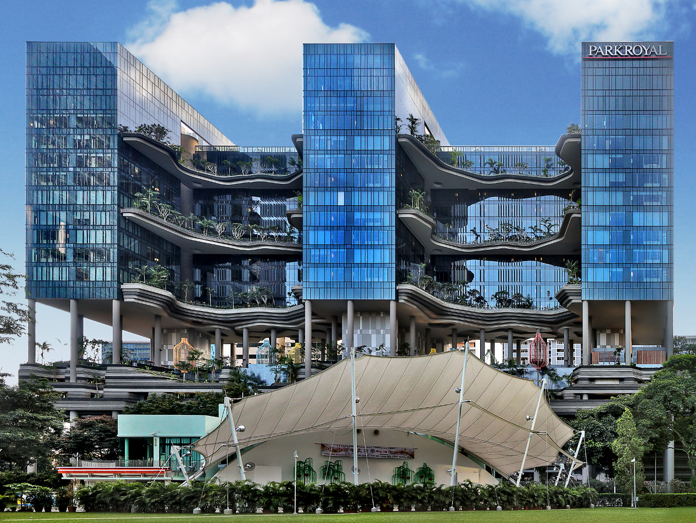 External view of Parkroyal on Pickering